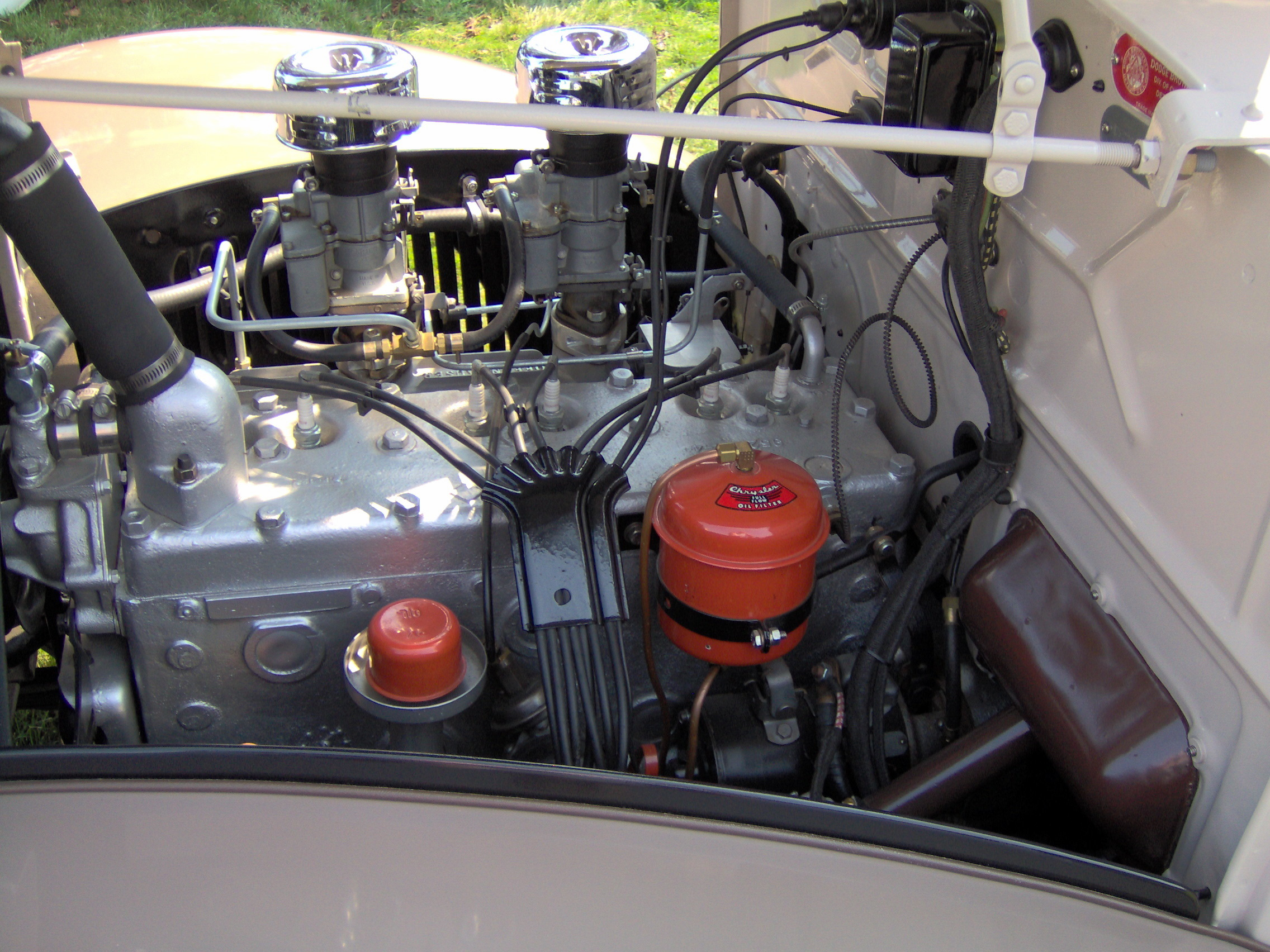 1937 Dodge Brothers coupe